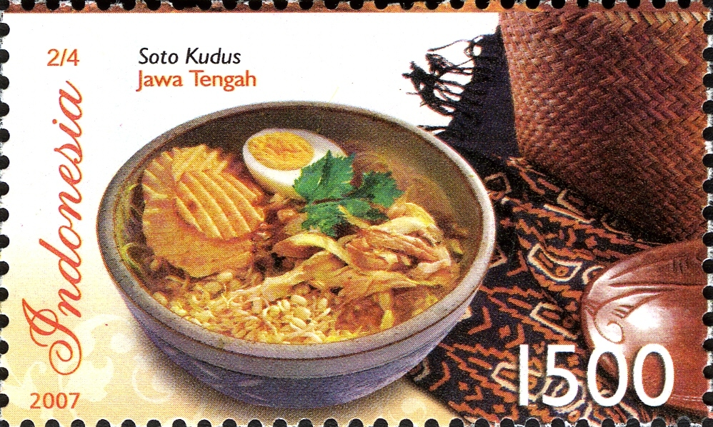 Stamps of Indonesia